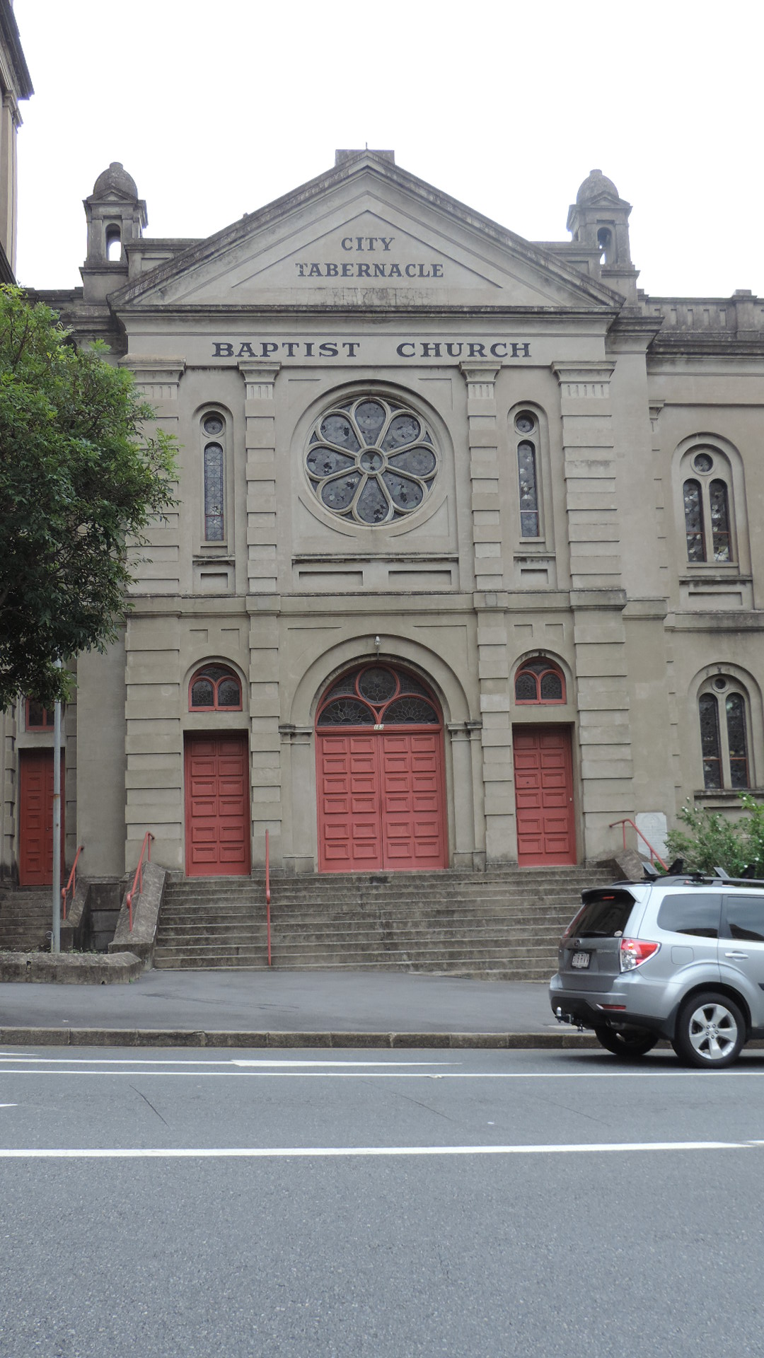 Baptist City Tabernacle, corner of Wickham Terrace and Upper Edward Street, Spring Hill, Brisbane, 2015